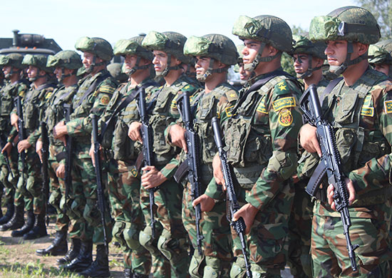 Ratnik 3 with Egyptian Paratroopers